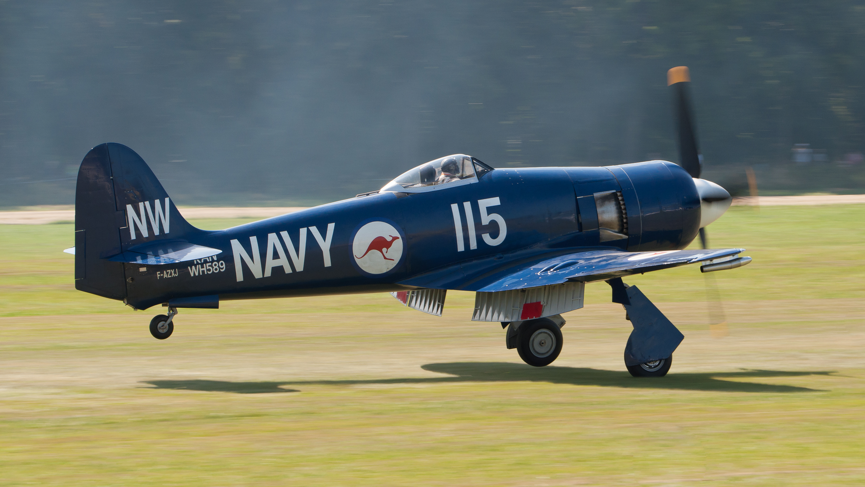 Hawker Sea Fury FB 10 (reg. F-AZXJ (115), cn 37733, built in 1944). Engine: Wright Centaurus XVIII. The aircraft was built for Iraqi AF as 316 (1958), destroyed in 2001 as reg. N56SF, rebuilt in the livery of RAN WH589 (cn 41H/636336, FB11).